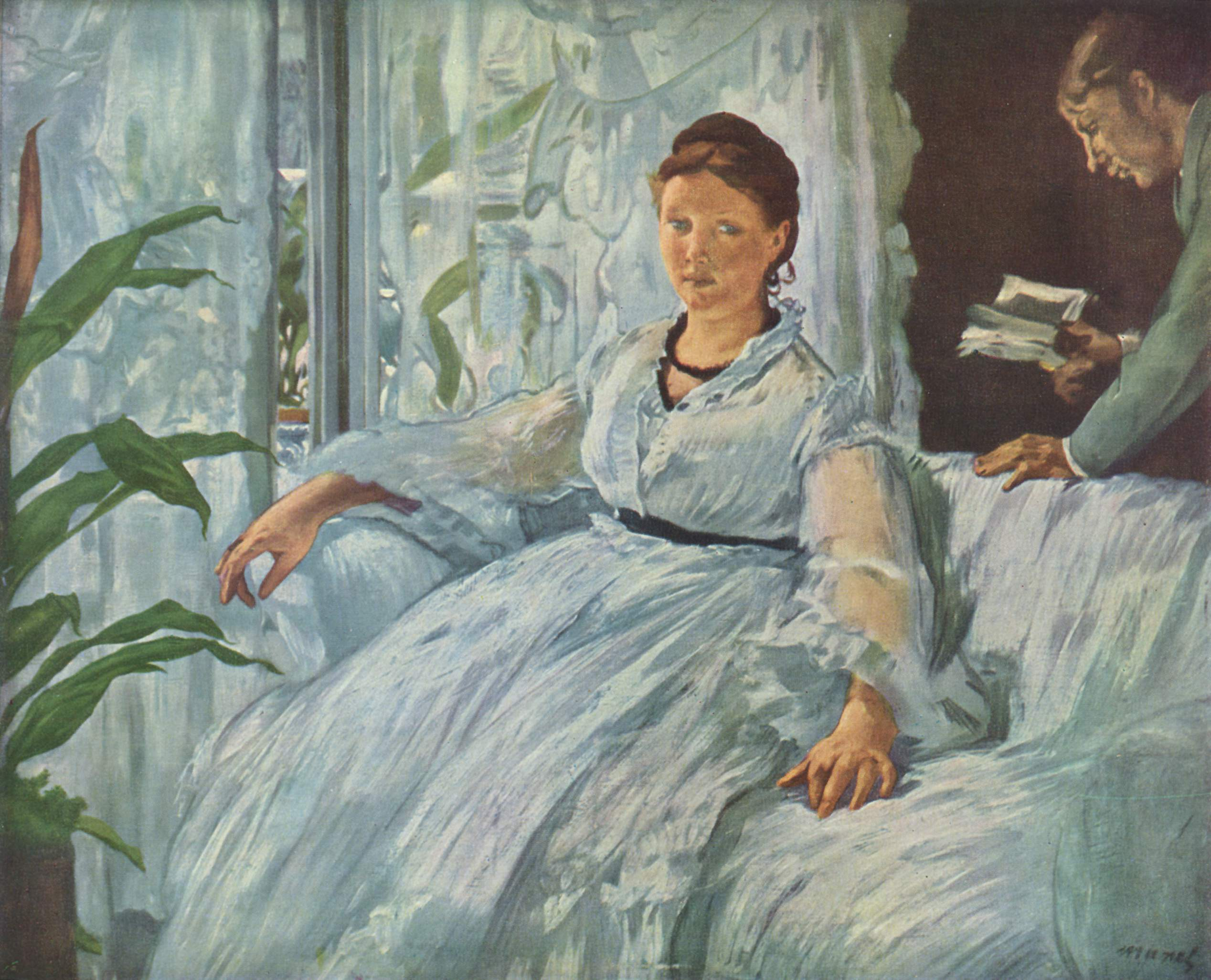 Portrait of Suzanne Manet and her son Léon Leenhoff